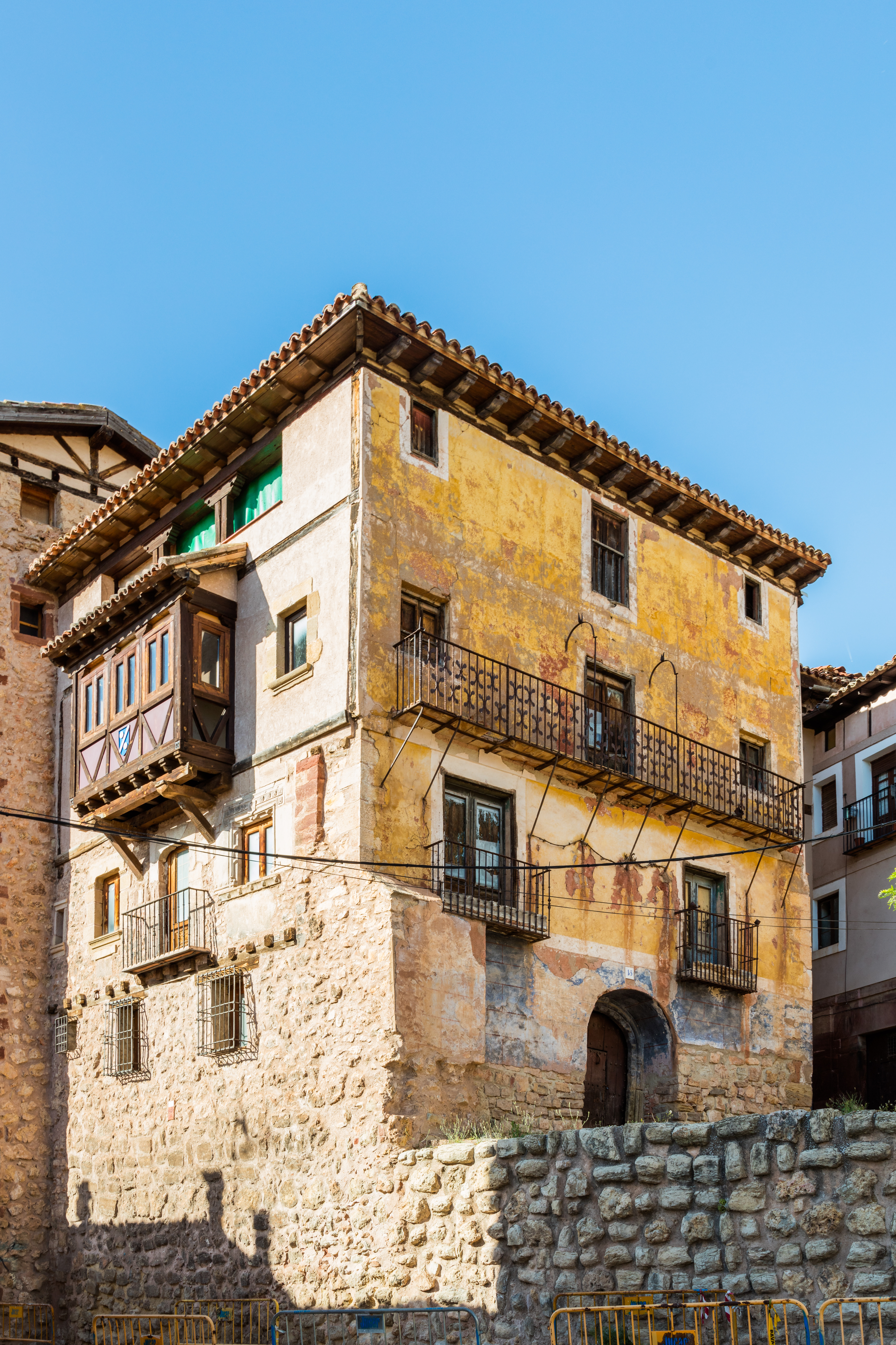 Posada de los Comuneros, Molina de Aragón, Guadalajara, Spain